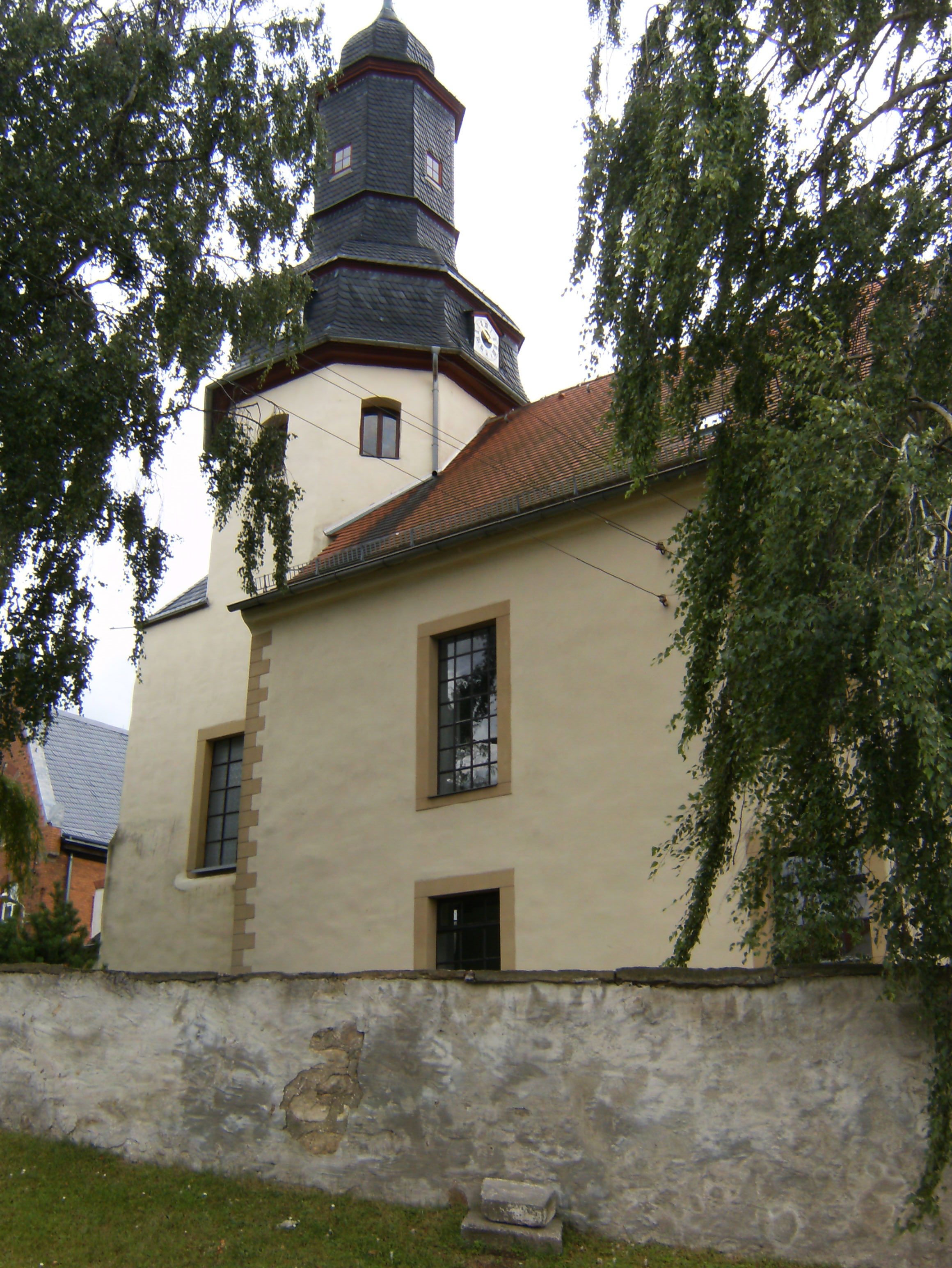 Gera Trebnitz, village church.